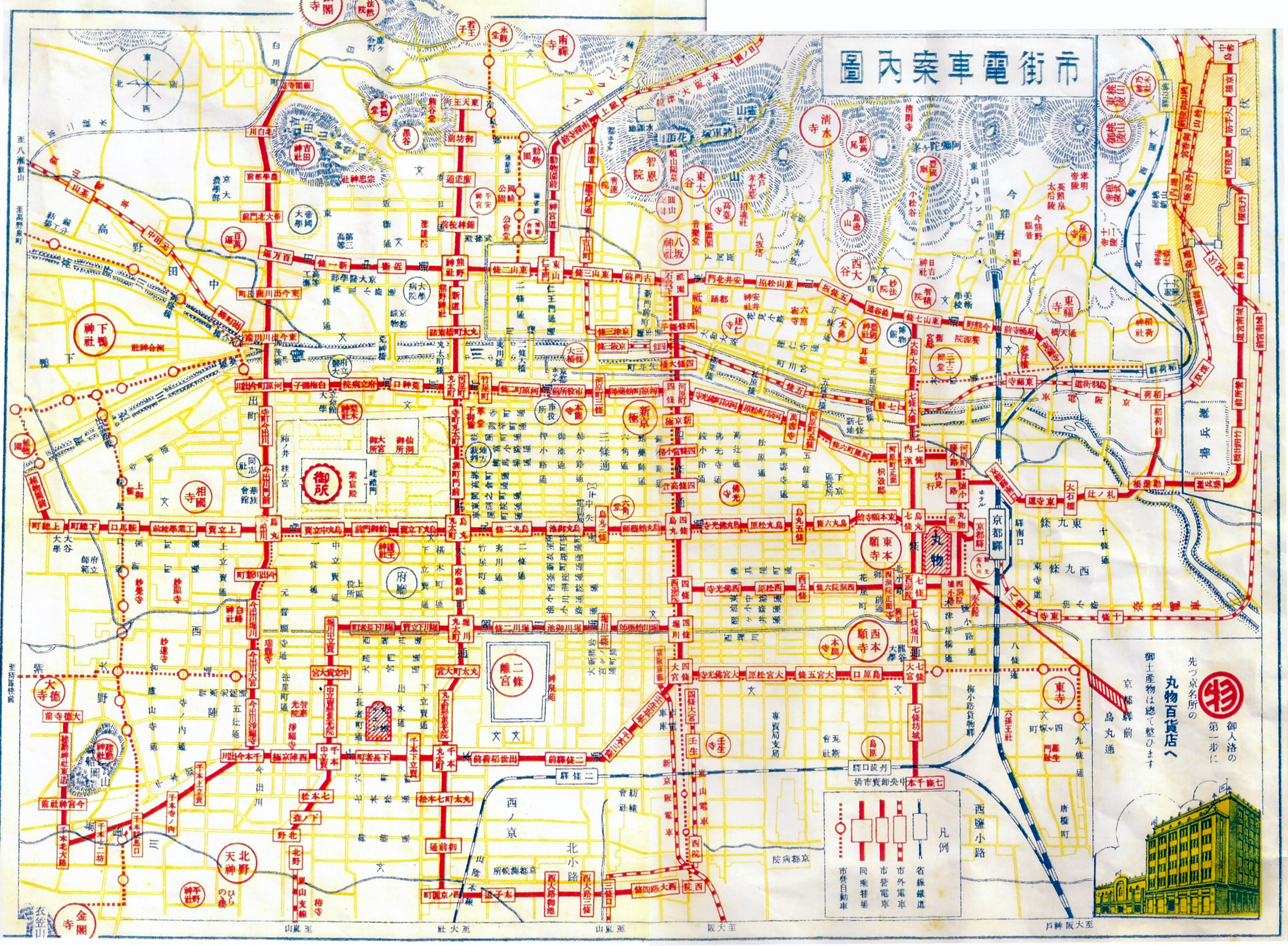 Route map of Kyoto City Tram with advertisement of Marubutsu Department Store. Image was rotated 90° to make North up.